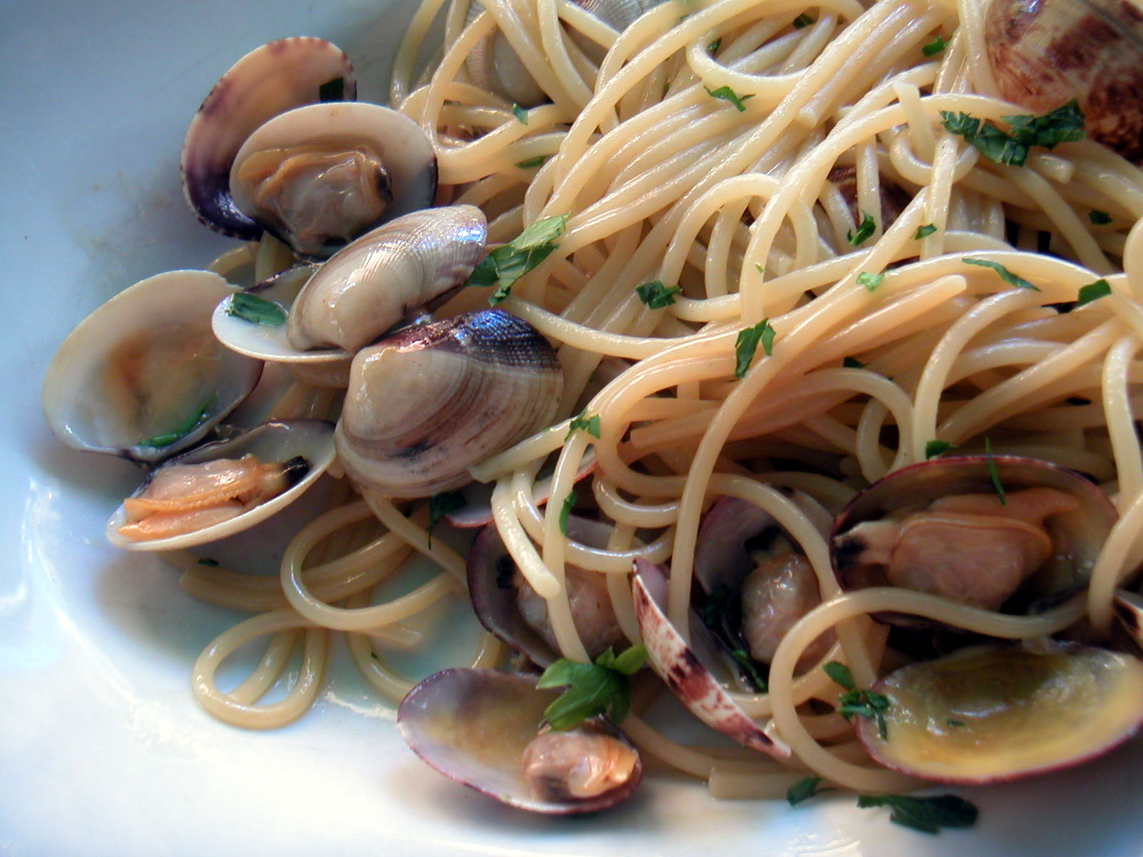 Spaghetti with mussels